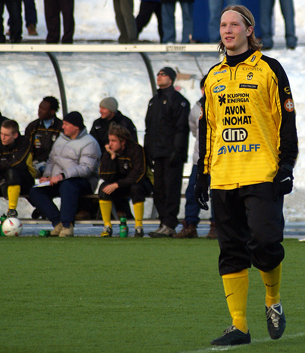 Defender Pietari Holopainen of KuPS. He has since played with FC Haka (from 2007). From Nike-Cup (23.-24. March 2005) at Magnum Areena, Kuopio.